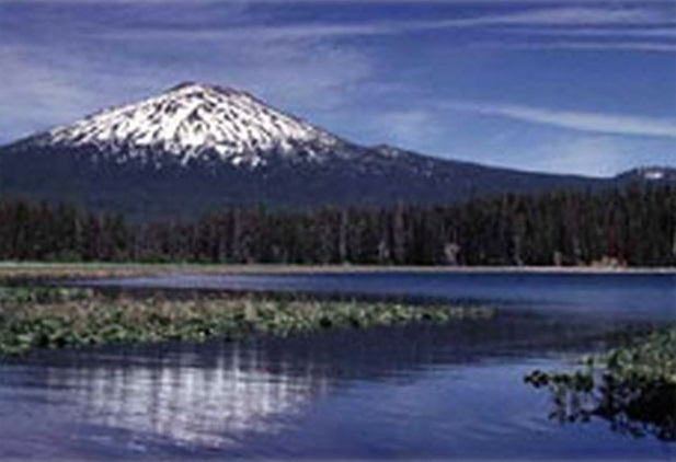 Hosmer Lake with Mount Bachelor in the background, Deschutes County, Oregon